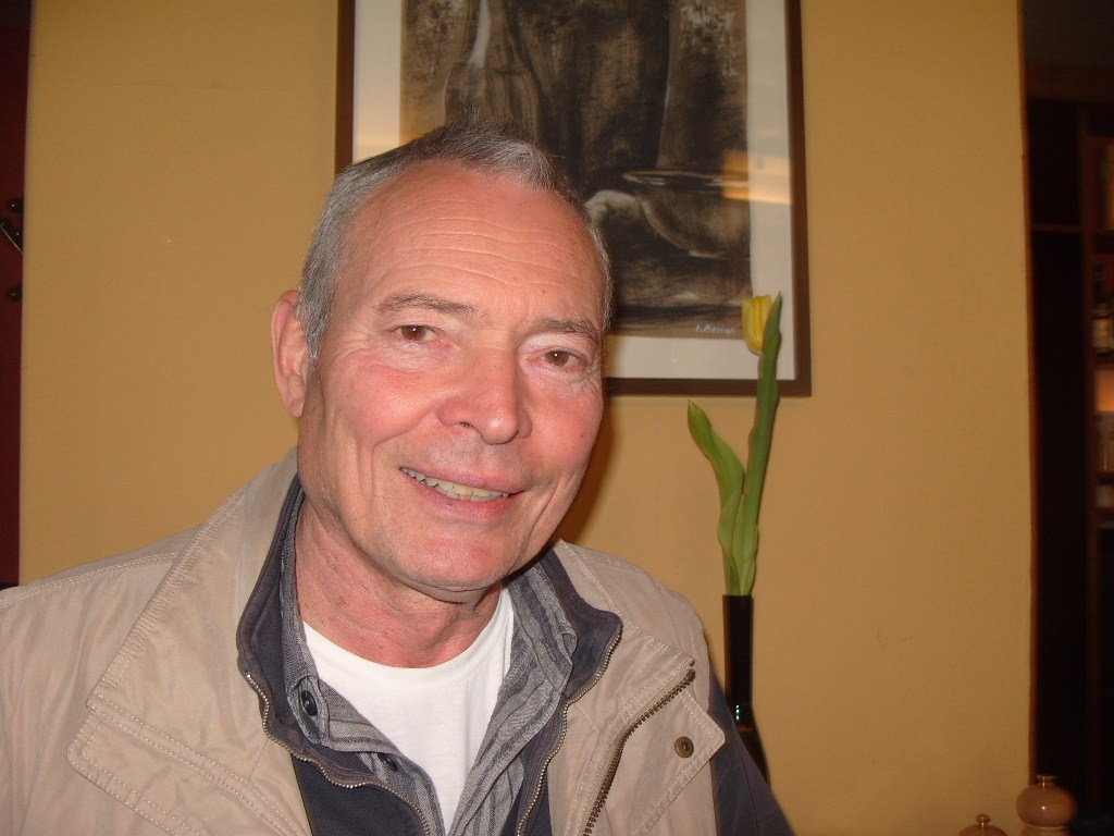 Thomas Danneberg after an interview in Berlin, Germany